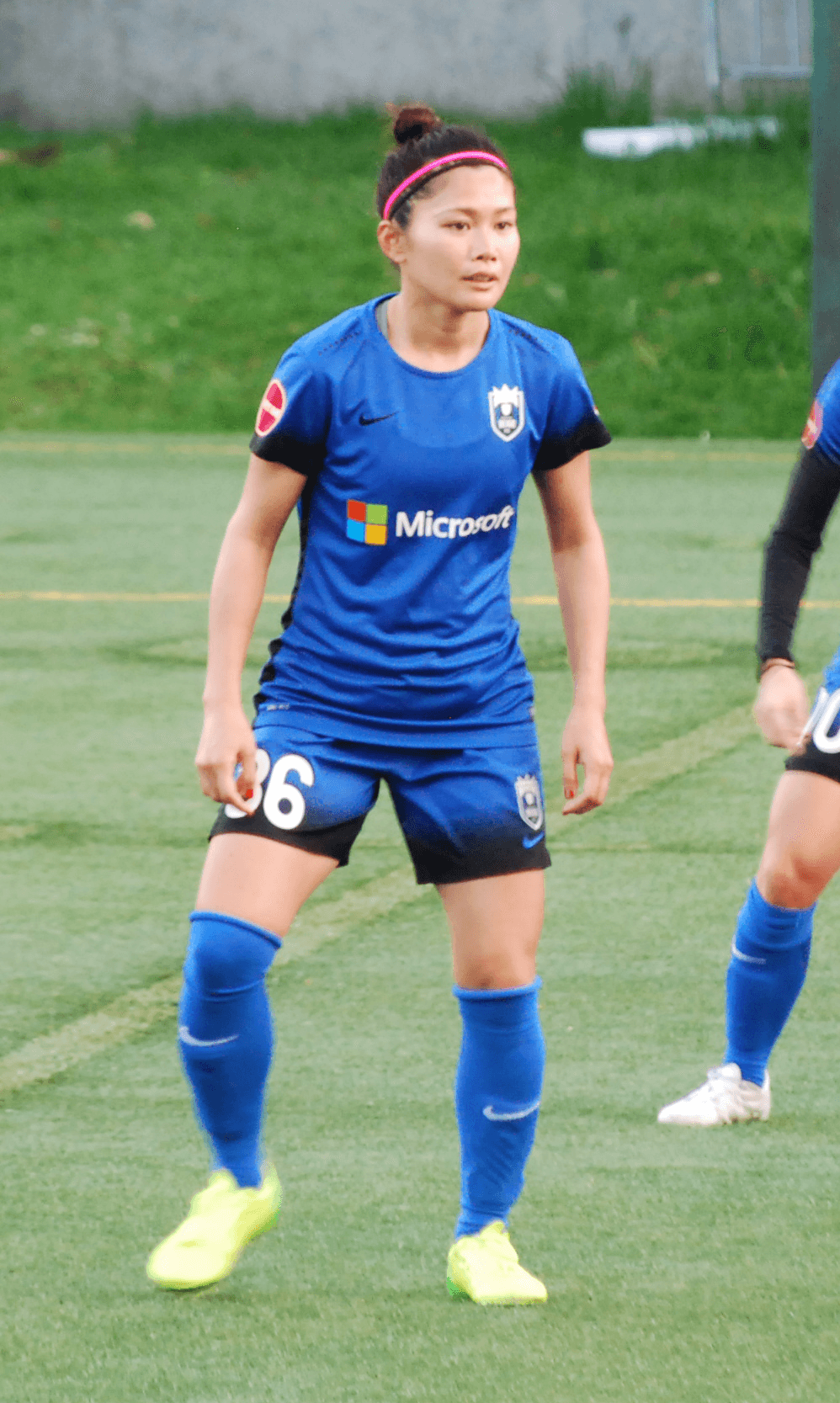 Nahomi Kawasumi, Seattle Reign FC vs Houston Dash, April 22, 2017, Memorial Stadium, Seattle, WA